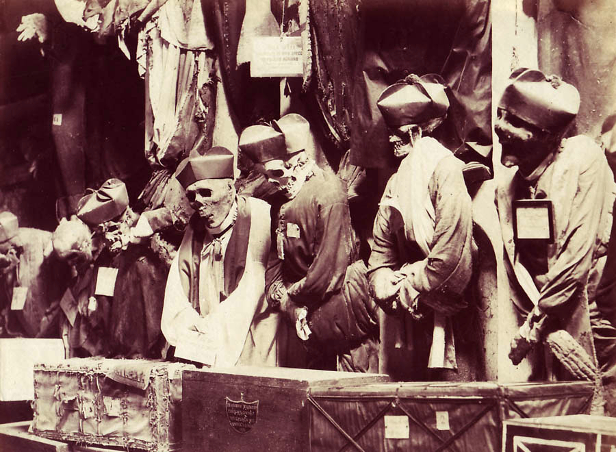 Giuseppe Incorpora (1834-1914), "Catacombs of the Capuchines in Palermo".